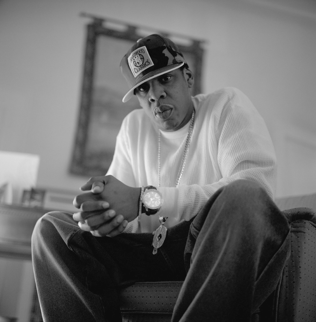 Jay-Z in Hamburg/Germany 2003